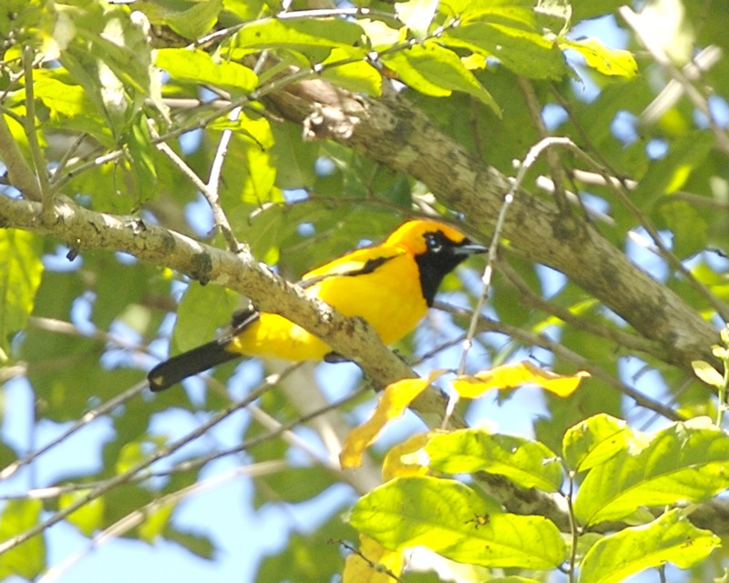 Golden Monarch, Monarcha chrysomela, subspecies Monarcha chrysomela kordensis. Taken in Biak, Papua, Indonesia, 15th January 2008. Habitat found in: partially cleared tropical jungle, now mostly scrub with scattered trees , new growth.